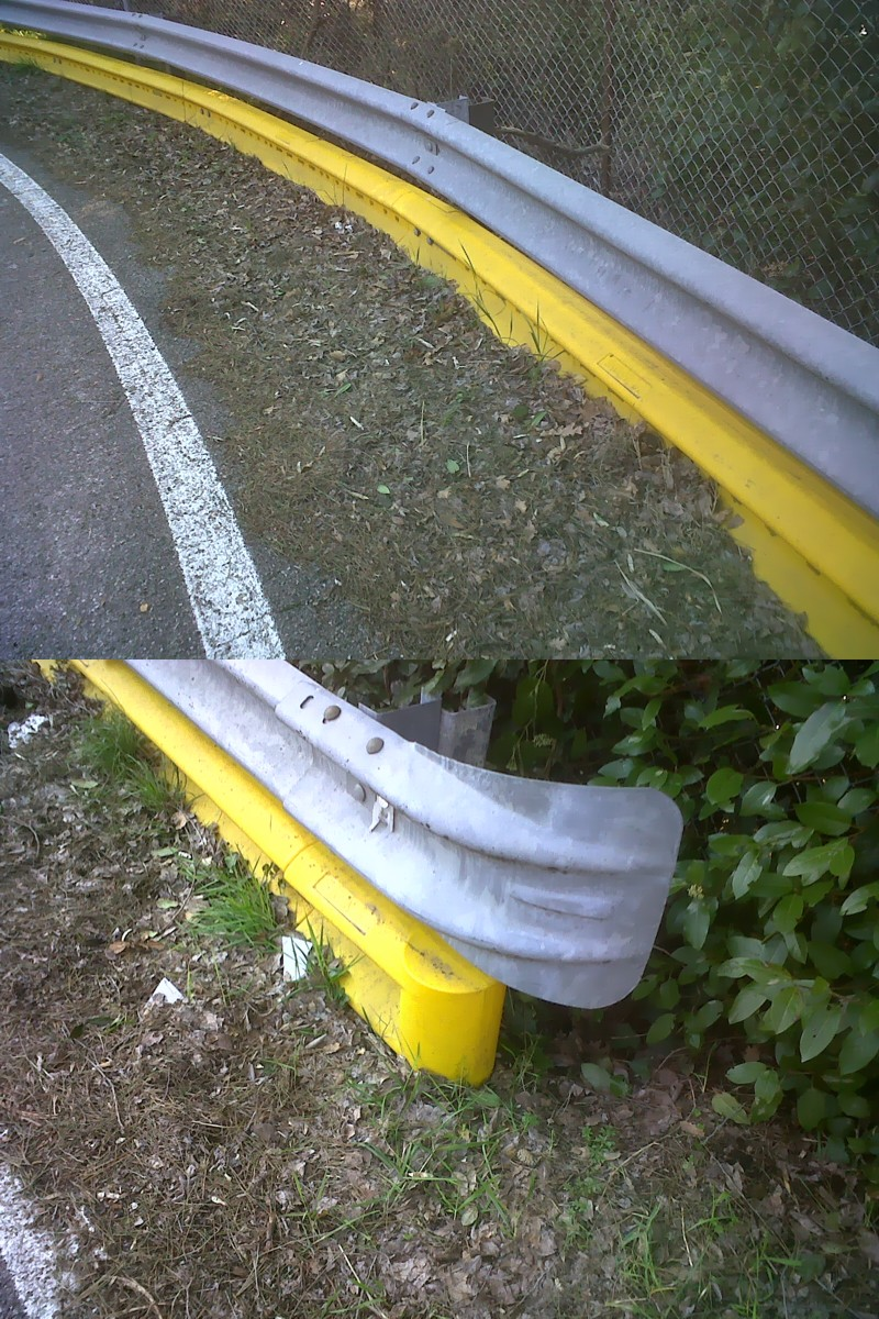 Guard rails with the additional bar for motorcyclists